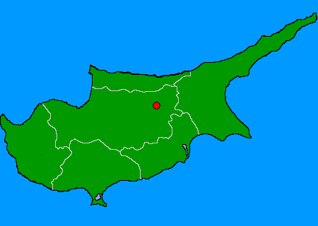 my creation